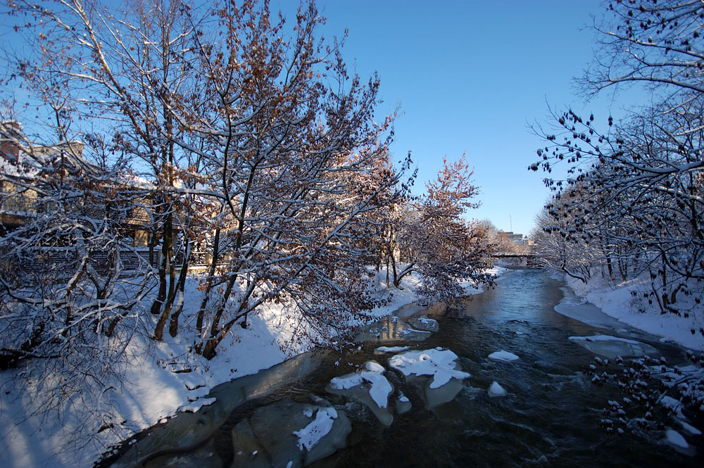 Vilnia River at winter. Užupis,Vilnius.